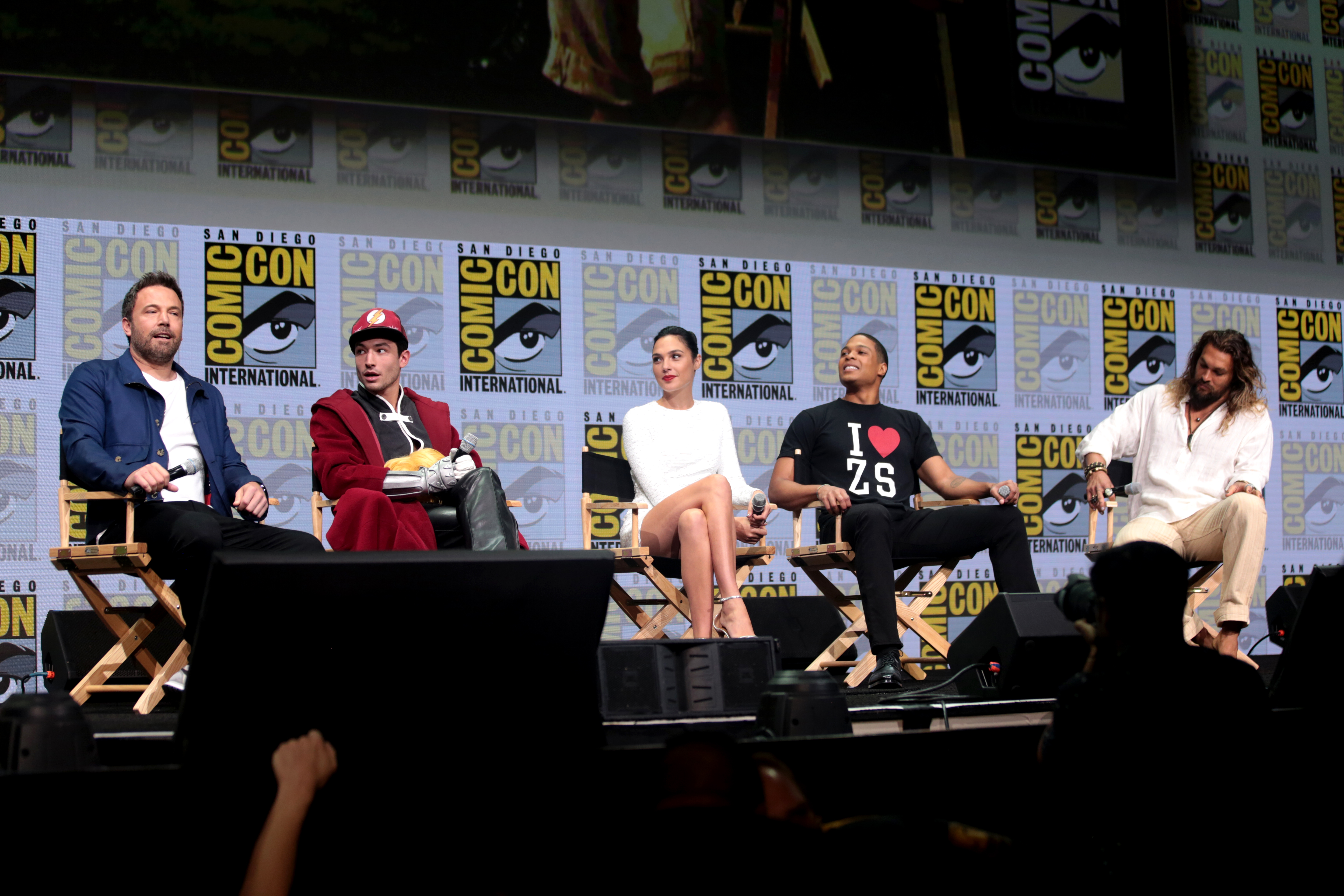 Ben Affleck, Ezra Miller, Gal Gadot, Ray Fisher and Jason Momoa speaking at the 2017 San Diego Comic Con International, for "Justice League", at the San Diego Convention Center in San Diego, California.